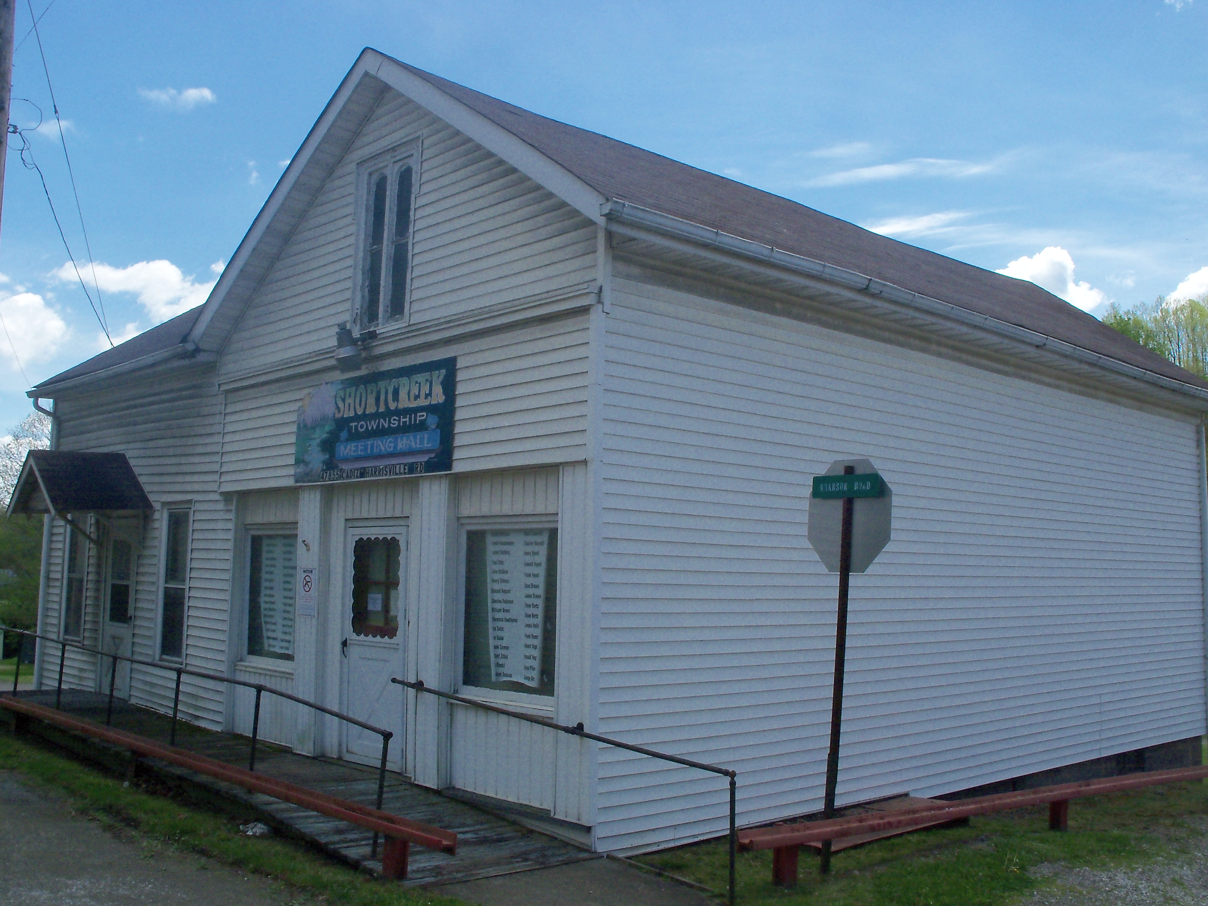 Short Creek Township, Harrison County, Ohio Meeting Hall is located at 47855 Cadiz-Harrisville Road in Georgetown, Harrison County, Ohio